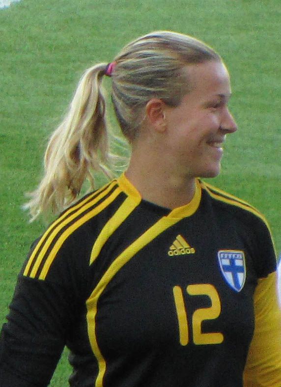 Tinja-Riikka Korpela during Finland - Northern Ireland friendly match.